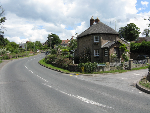 Lugwardine - Thatched Cottage At Tidnor Lane